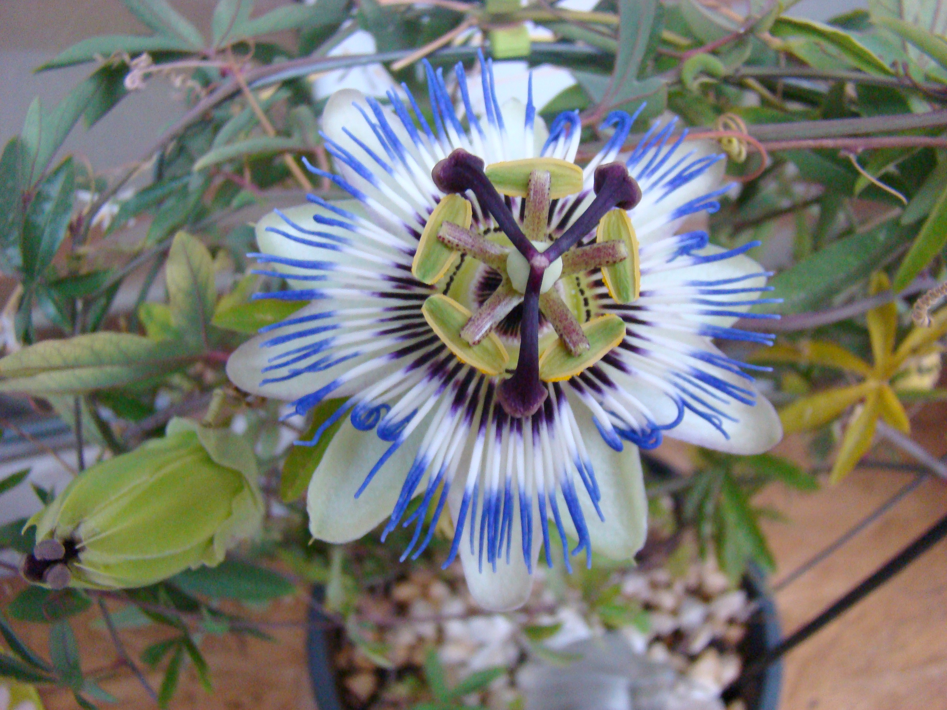 Passiflora caerulea